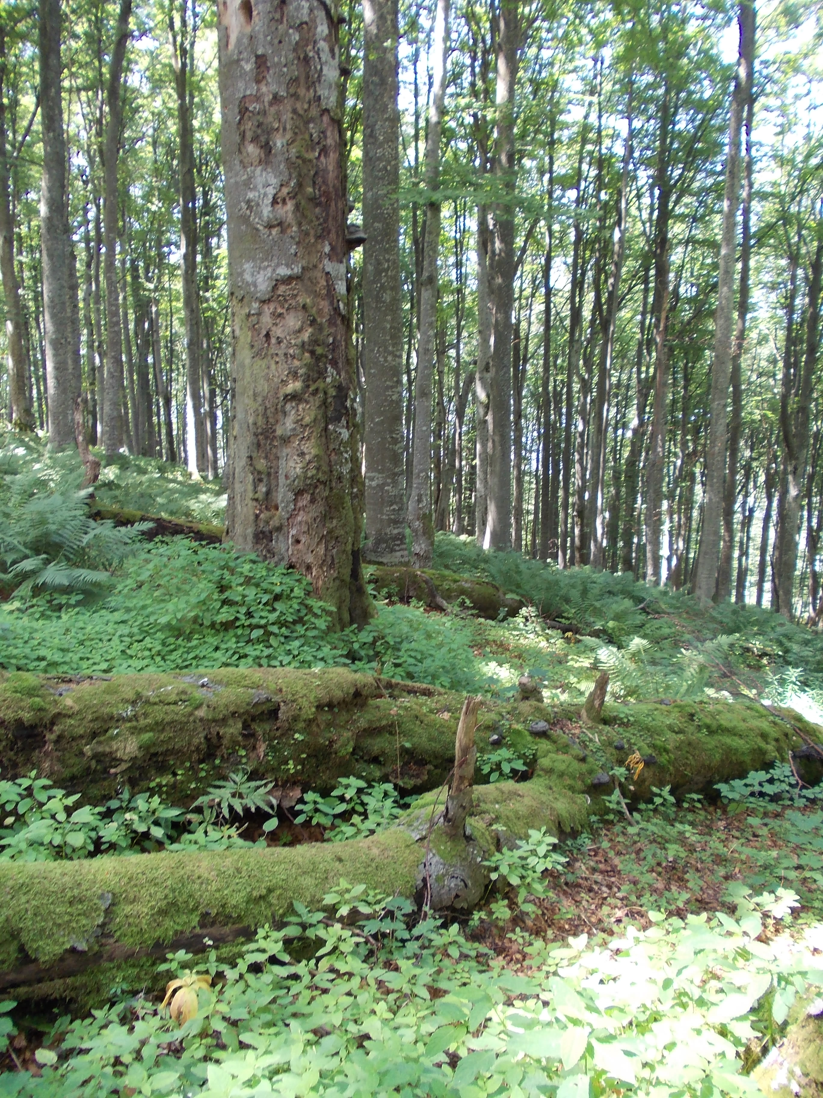 Trdina Peak Primeval forest